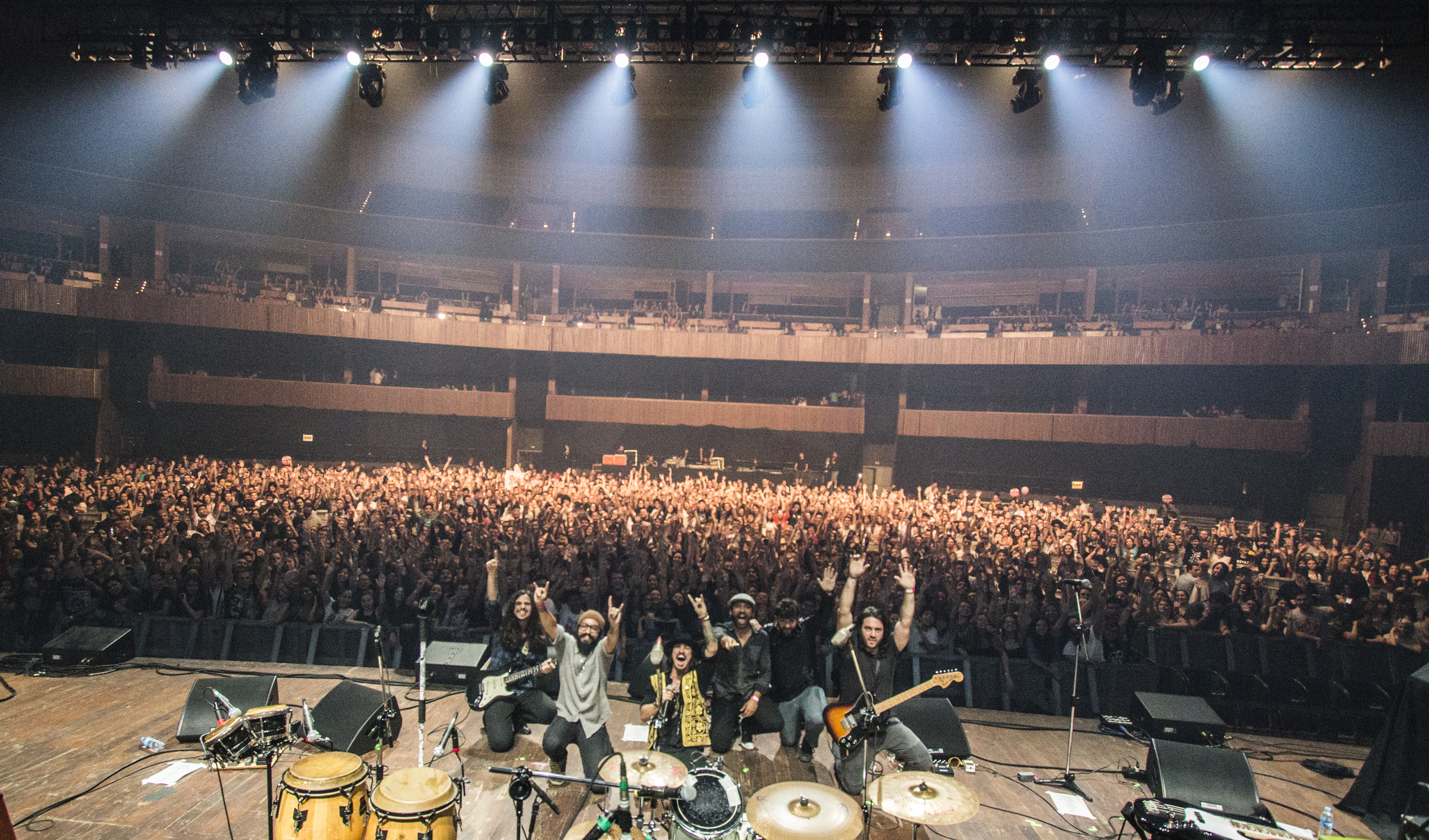 folks em sampa